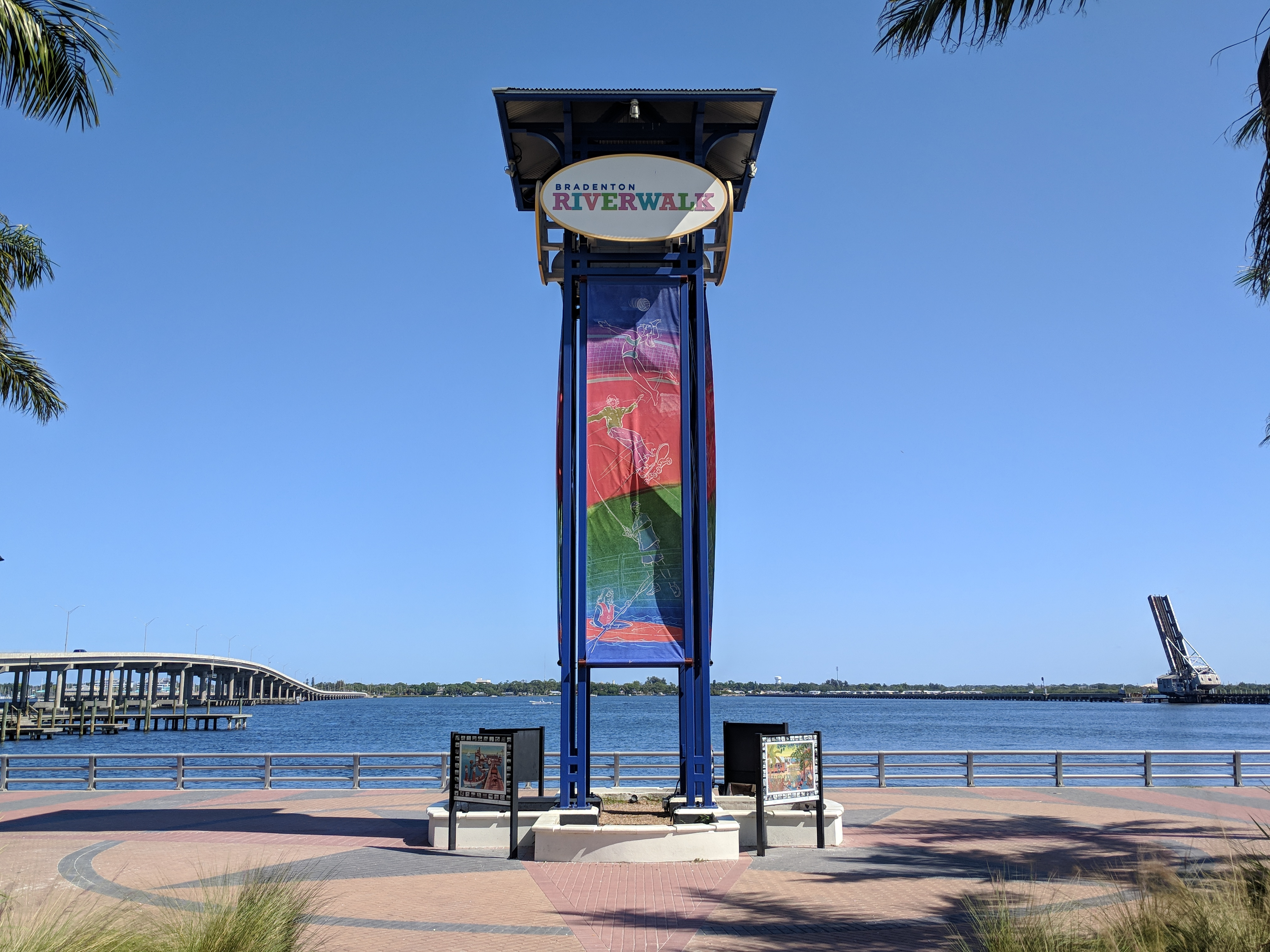 Tower Plaza at Bradenton Riverwalk in downtown Bradenton, FL